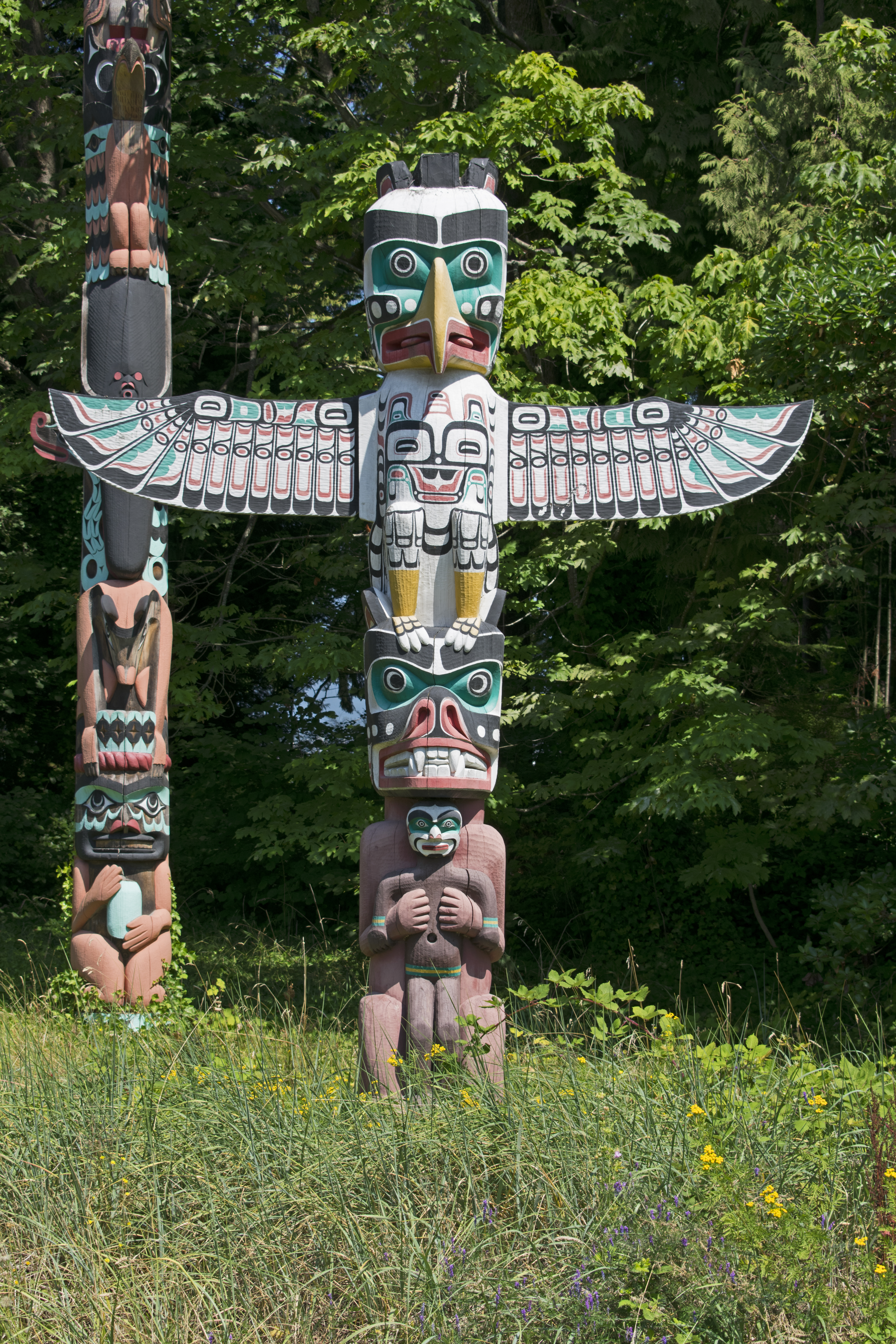 The Thunderbird House Totem Pole in Stanley Park. Left is the Sky Chief totem pole.